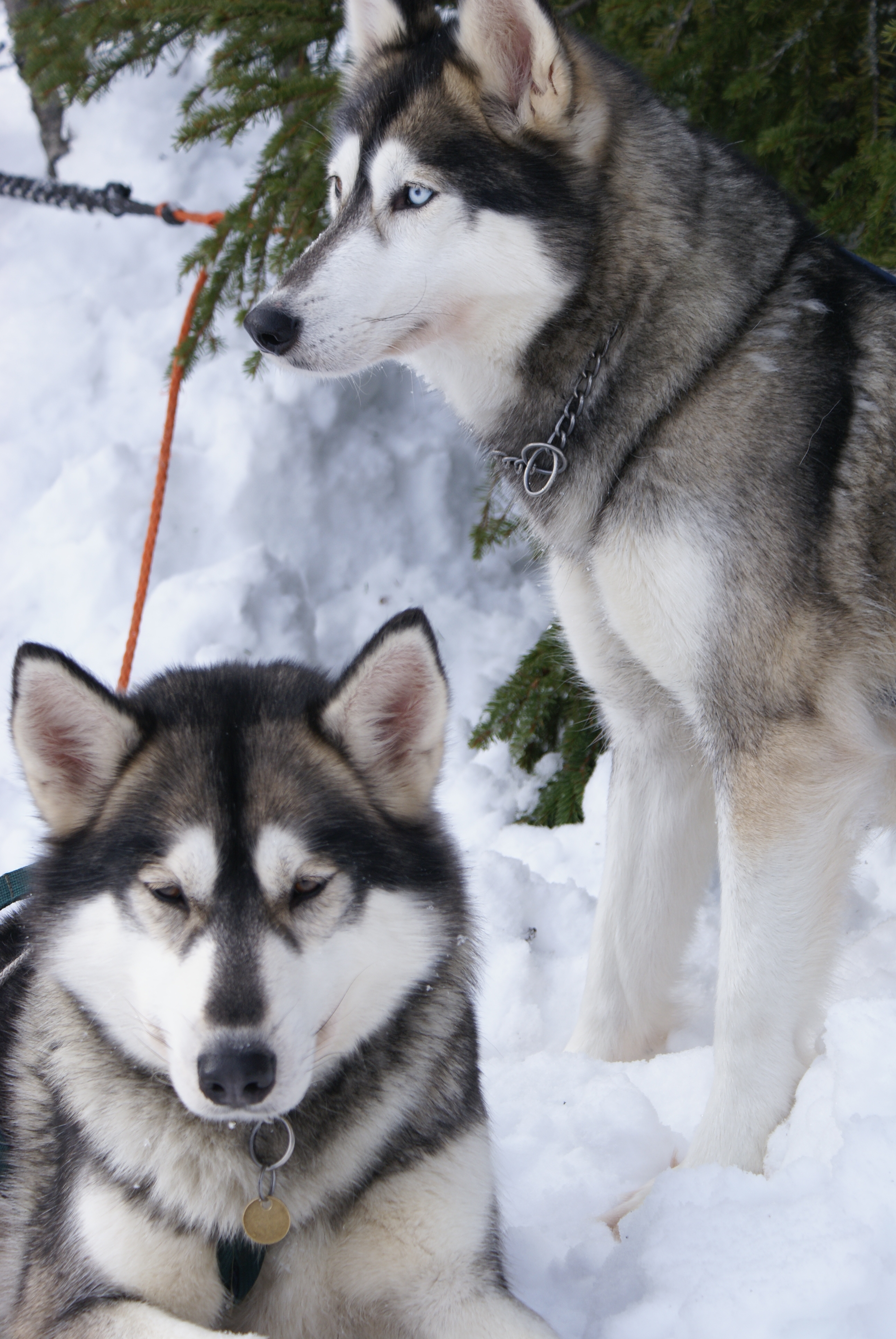 Two Siberian Huskies in Norway.